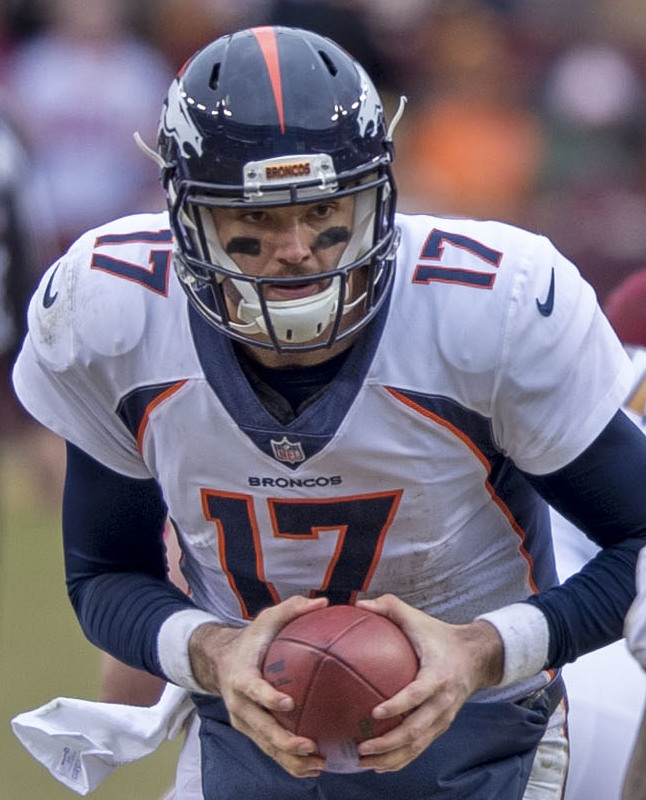 Broncos at Redskins 12/24/17